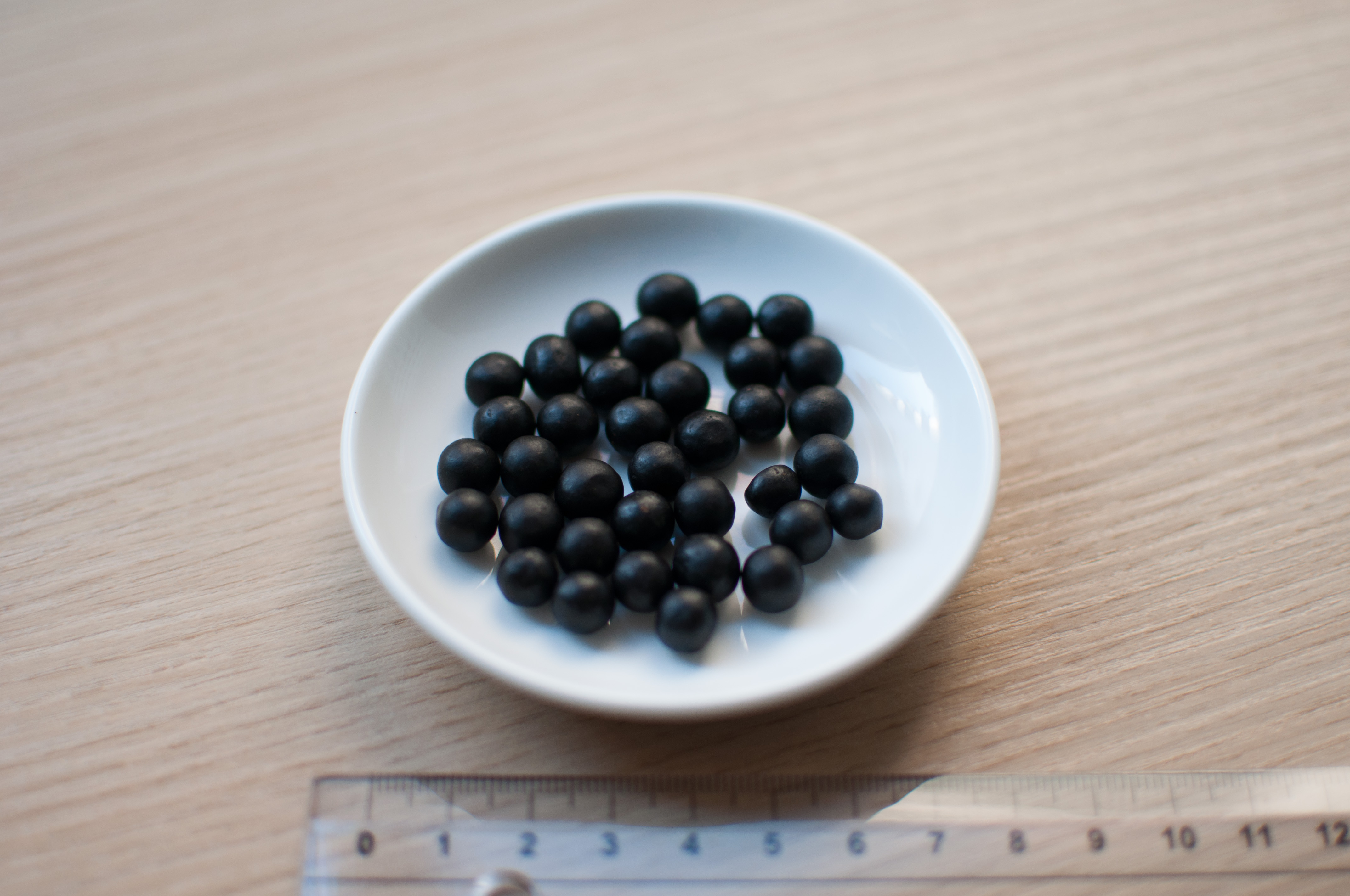 Eucommia ulmoides used in Traditional Chinese medicine